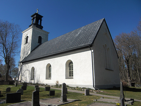 Frösthult church in Simtuna hundred, Fjädrundaland, Enköping municipality, Uppsala county, the Diocese of Uppsala, Uppland, Sweden.